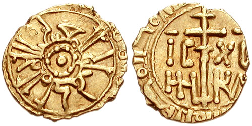 Italy, Norman Kings of Sicily. Roger II of Sicily. 1105-1154. AV Tarì (12mm, 0.92 g). Palermo mint. Circular Kufic legend citing Roger as King; pellet in center IC CX NI KA flanking cross; marginal legend with mint (madīna Ṣiqilliyya) and date (missing, c. 1140-54). MEC 14, 201-3.